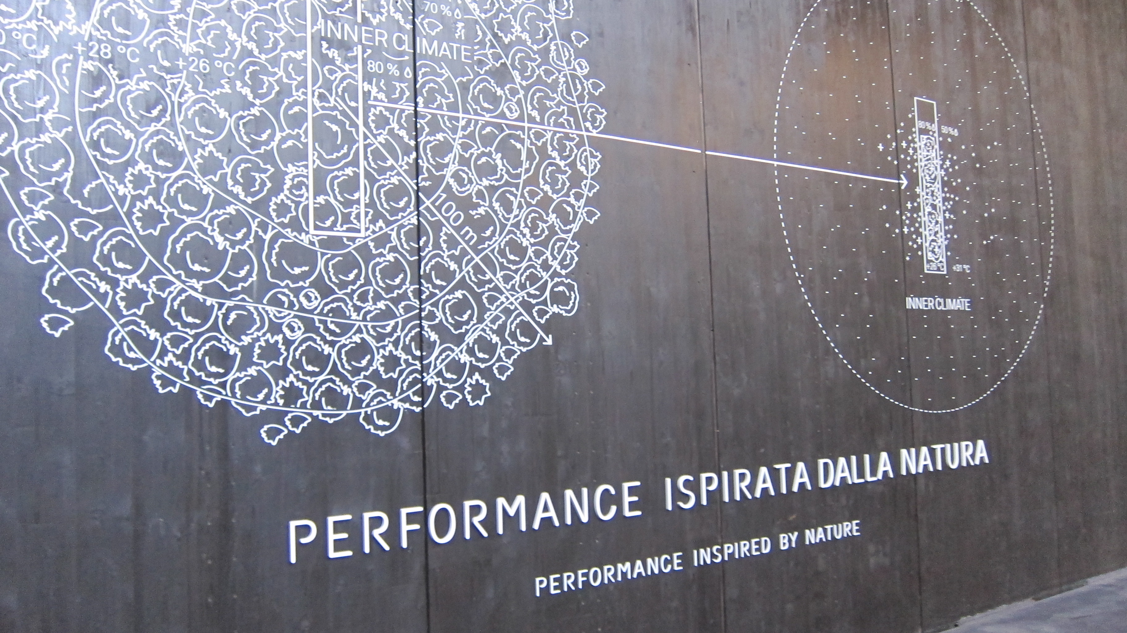 One of the walls decorated for the exposition in the Austrian Pavilion of Expo Milano 2015 (Rho Fiera Milano, Italy). The picture was taken the 28th of july 2015.